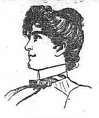 Portrait of Margaret Haile, Ontario Socialist League candidate in North Toronto in the 1902 provincial election in Ontario, Canada. Although she only ended up garnering 74 votes, Haile was the first female candidate for provincial office in Ontario. She may have been the first woman to run for major elected office within the entire British Empire. Haile ran for office in 1902, 15 years before women were allowed to vote in provincial elections. Her name was placed on the ballot even though it was uncertain at that time whether a woman was legally entitled to be a member of the Ontario Legislative Assembly (the first two female MPPs, Agnes McPhail and Rae Luckock, would not be elected until 1943). In 1902, the only elected office women could hope to win in Ontario was school trustee (Toronto voted in its first three female trustees in 1892), and even then only single women and widows qualified.